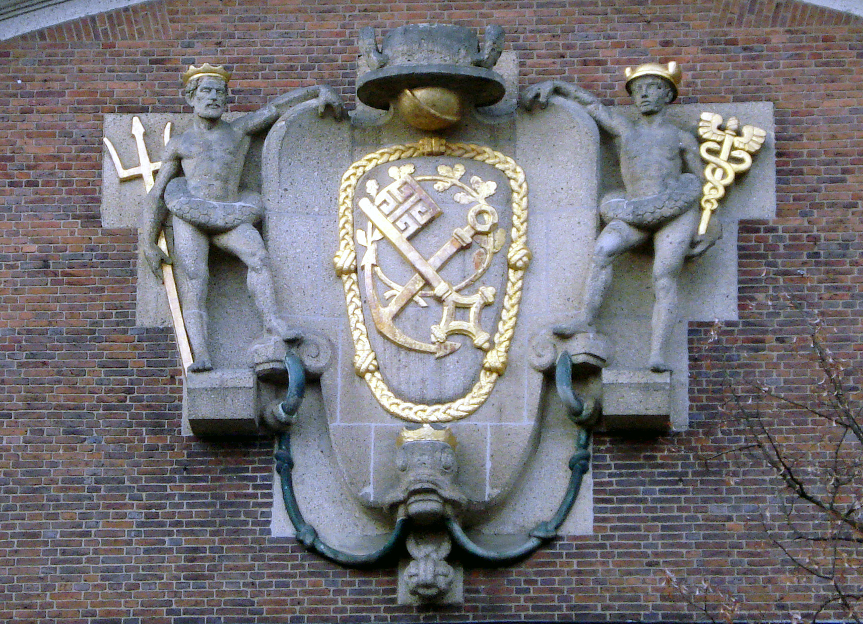 The company emblem of the North German Lloyd (NDL, Norddeutscher Lloyd) at the entrance to the Lloyd building from 1913 near the main train station in Bremen (Germany).